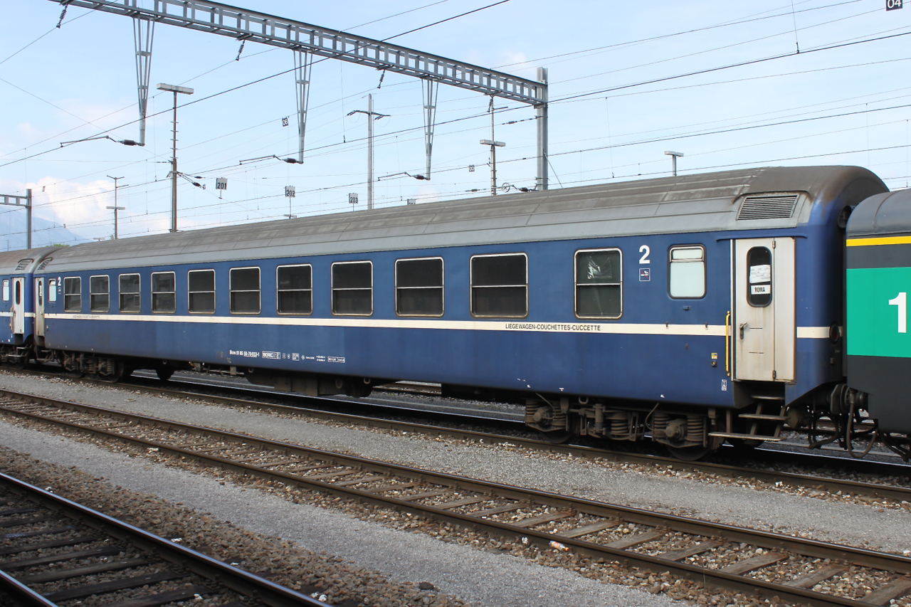 SBB CFF FFS couchette car Bcm 51 85 50-70 033-1 at Buchs SG.